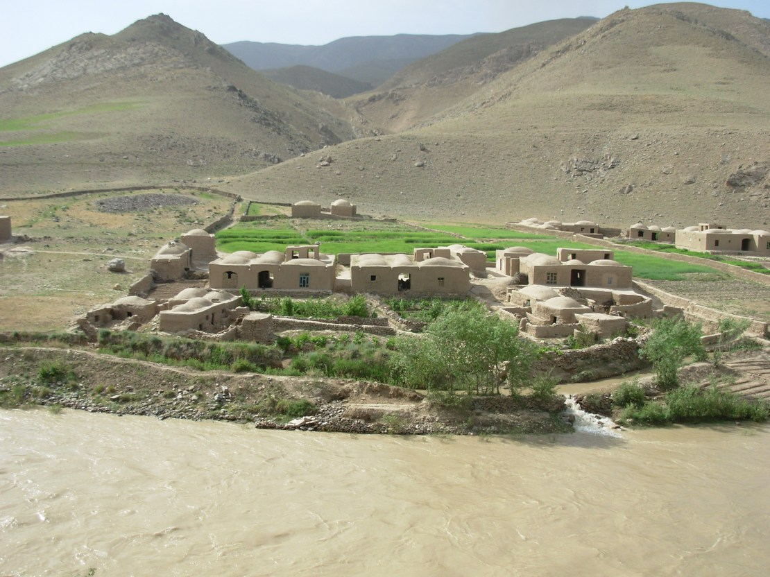 Harirudrivershishtesharif